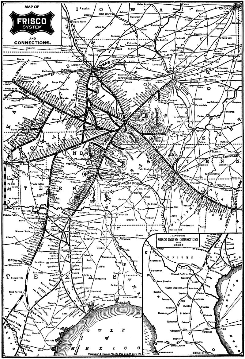 System map of the Frisco lines (St. Louis-San Francisco Railway), probably published by the railroad itself. No date or copyright notice given, but must have been made between 1901 when Frisco acquired the Fort Worth and Rio Grande Railway between Ft. Worth and Brownwood, Texas, and before 1903 when Frisco began building an extension to Brady and Menard (shown as Menardville on this map). Also, Gulf Coast Lines route from Houston to Brownsville, begun 1903, is not shown. Thus, map is over 100 years old and should be in the public domain. Found at Catskill Archive